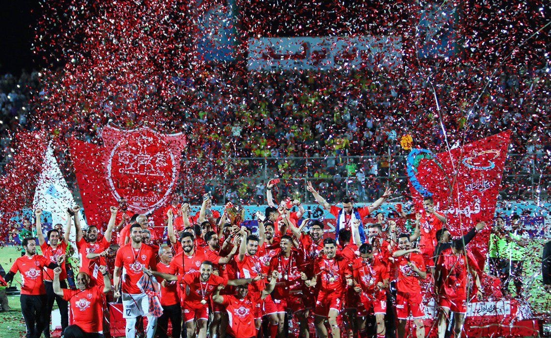 FC Persepolis trophy celebrations. 2018–19 Persian Gulf Pro League.